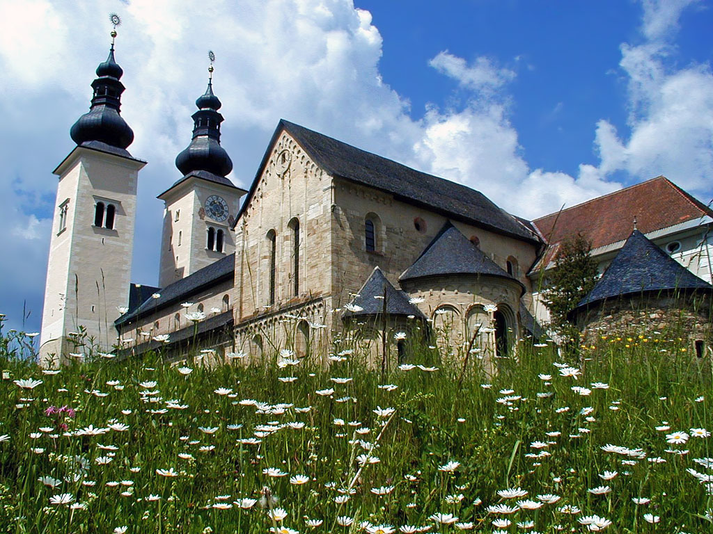 Gurk Cathedral in spring.